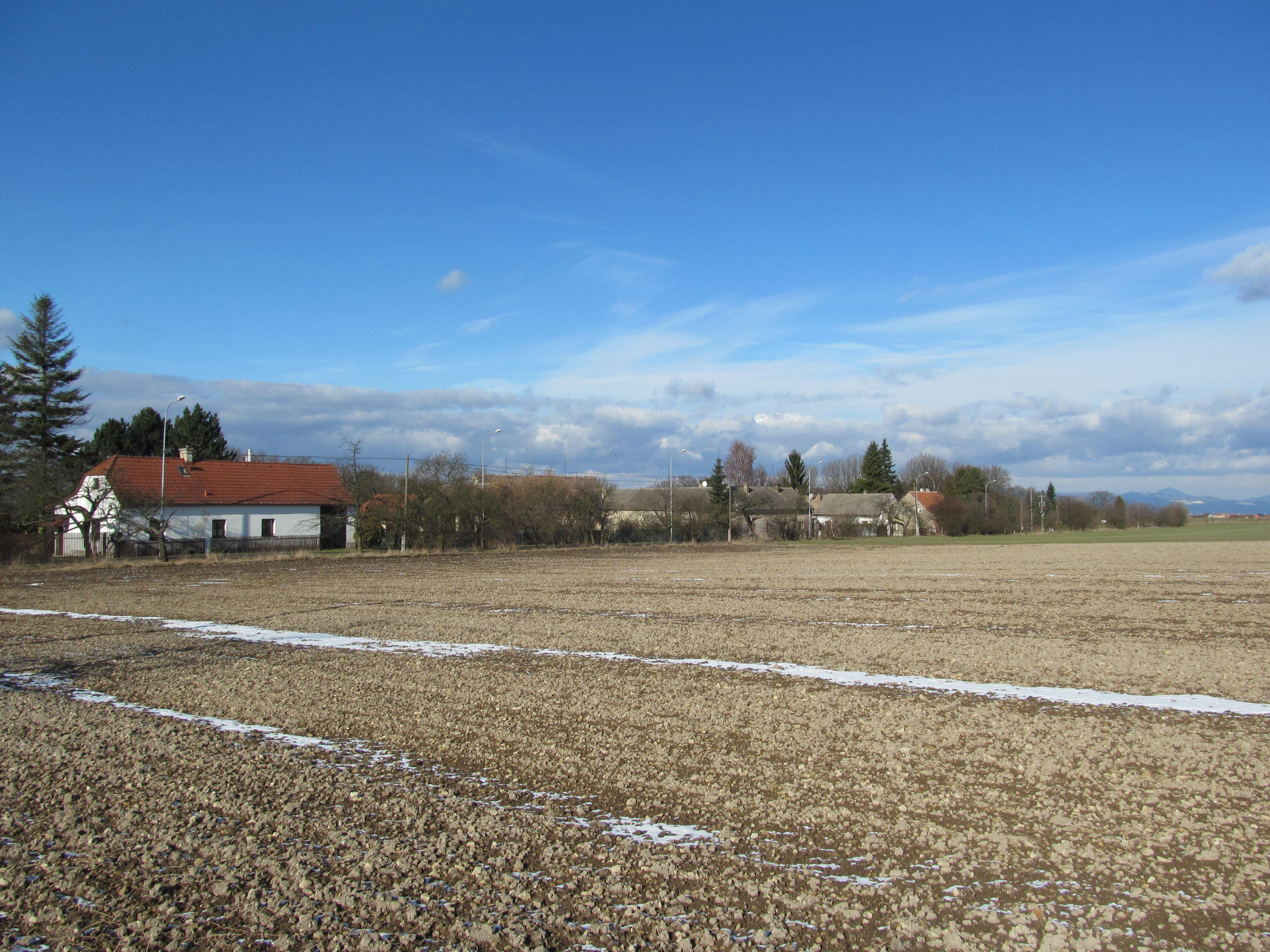 Hvížďalka: total view